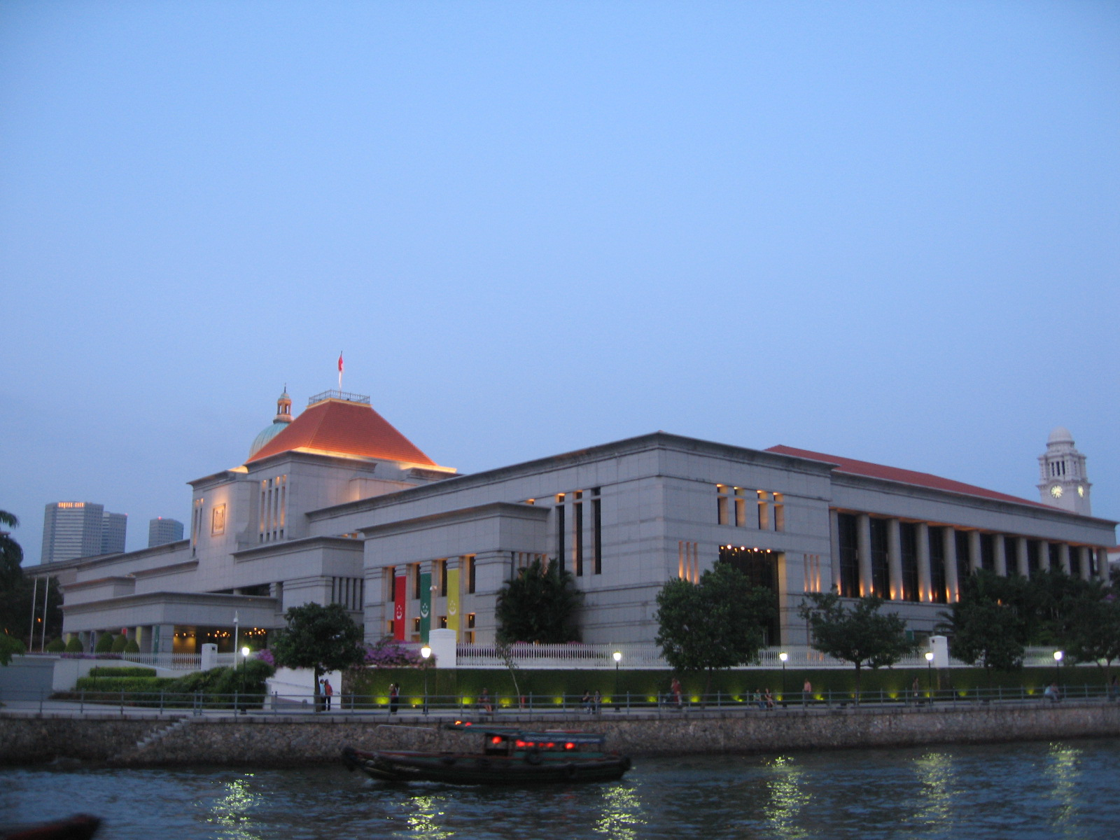 Parliament House, Singapore.